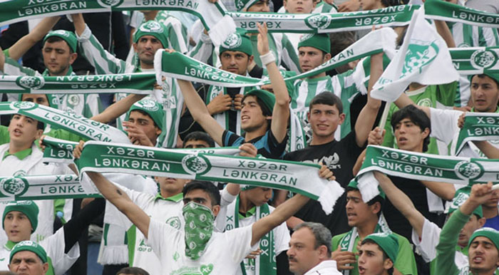 Football fans of Khazar Lankaran